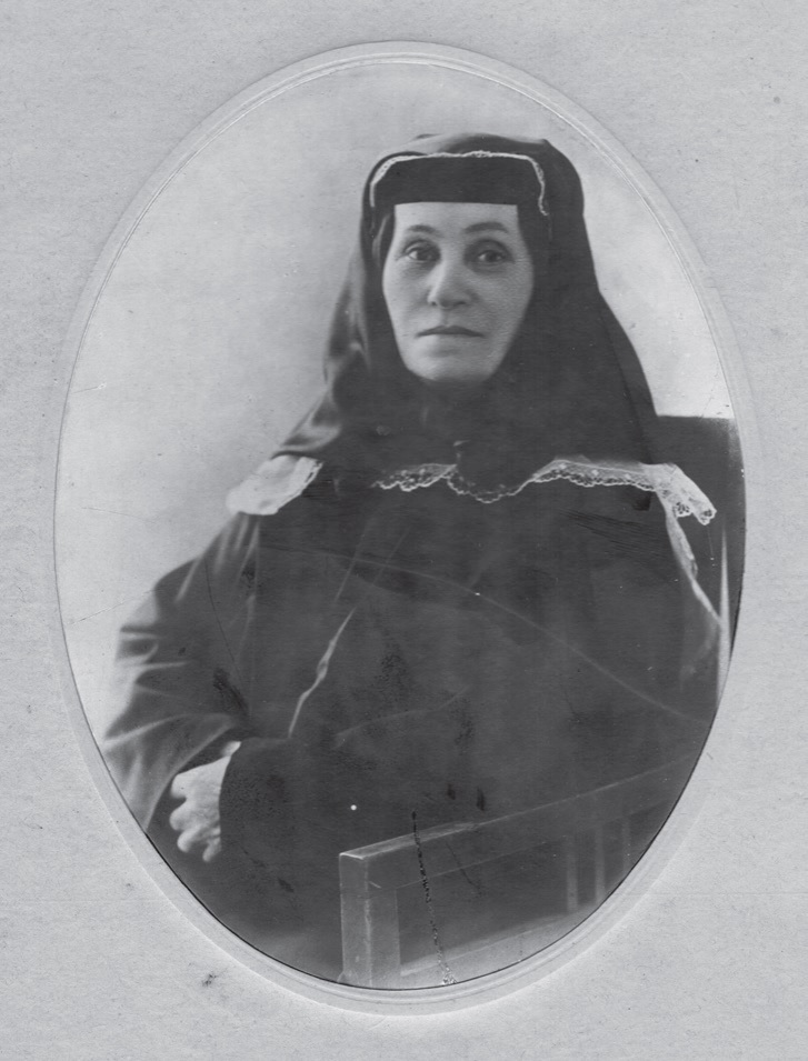 Photograph of Ekaterina Dzhugashvili, mother of Joseph Stalin.